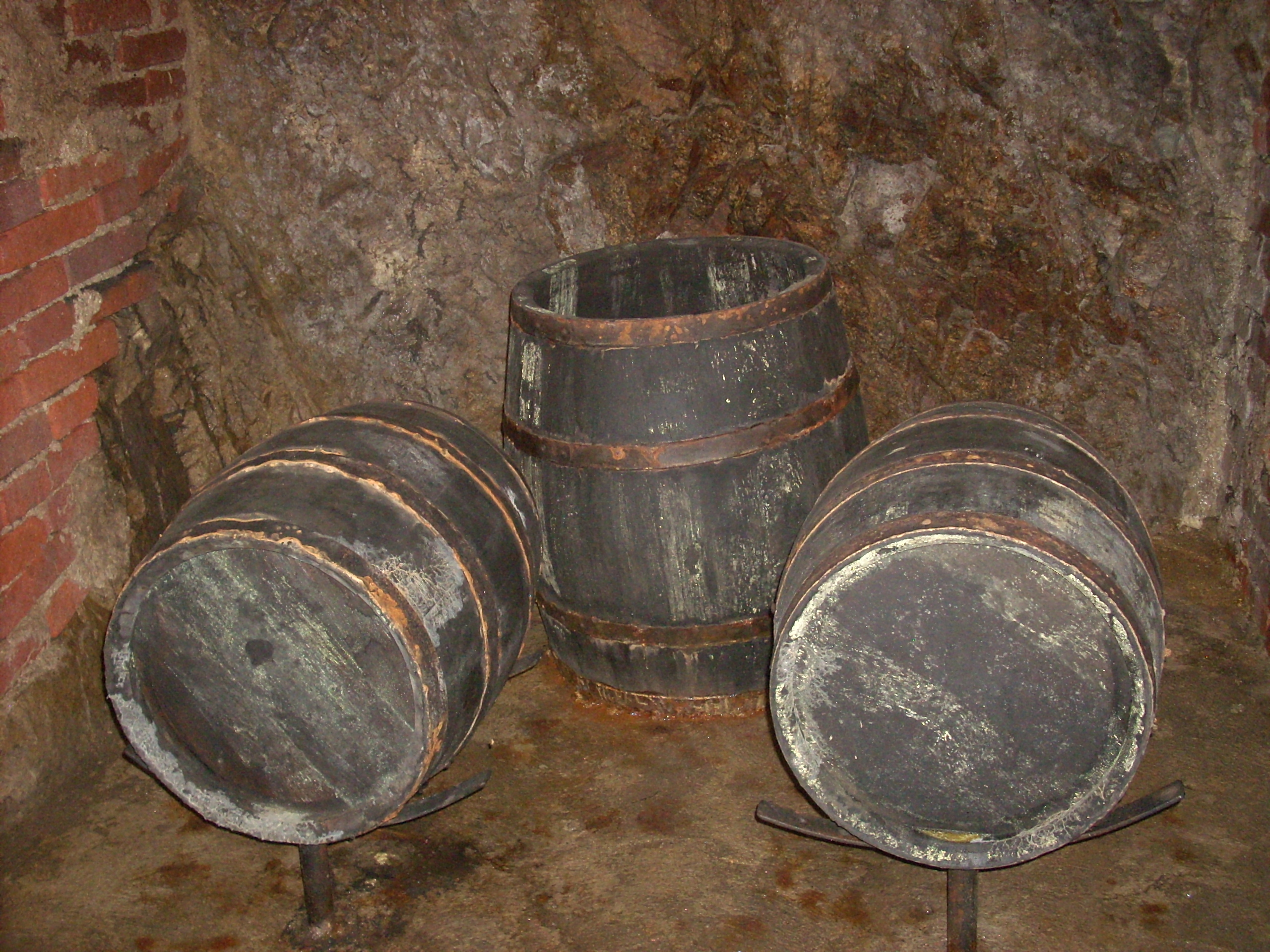 Bear barrels from Jihlava´s underground